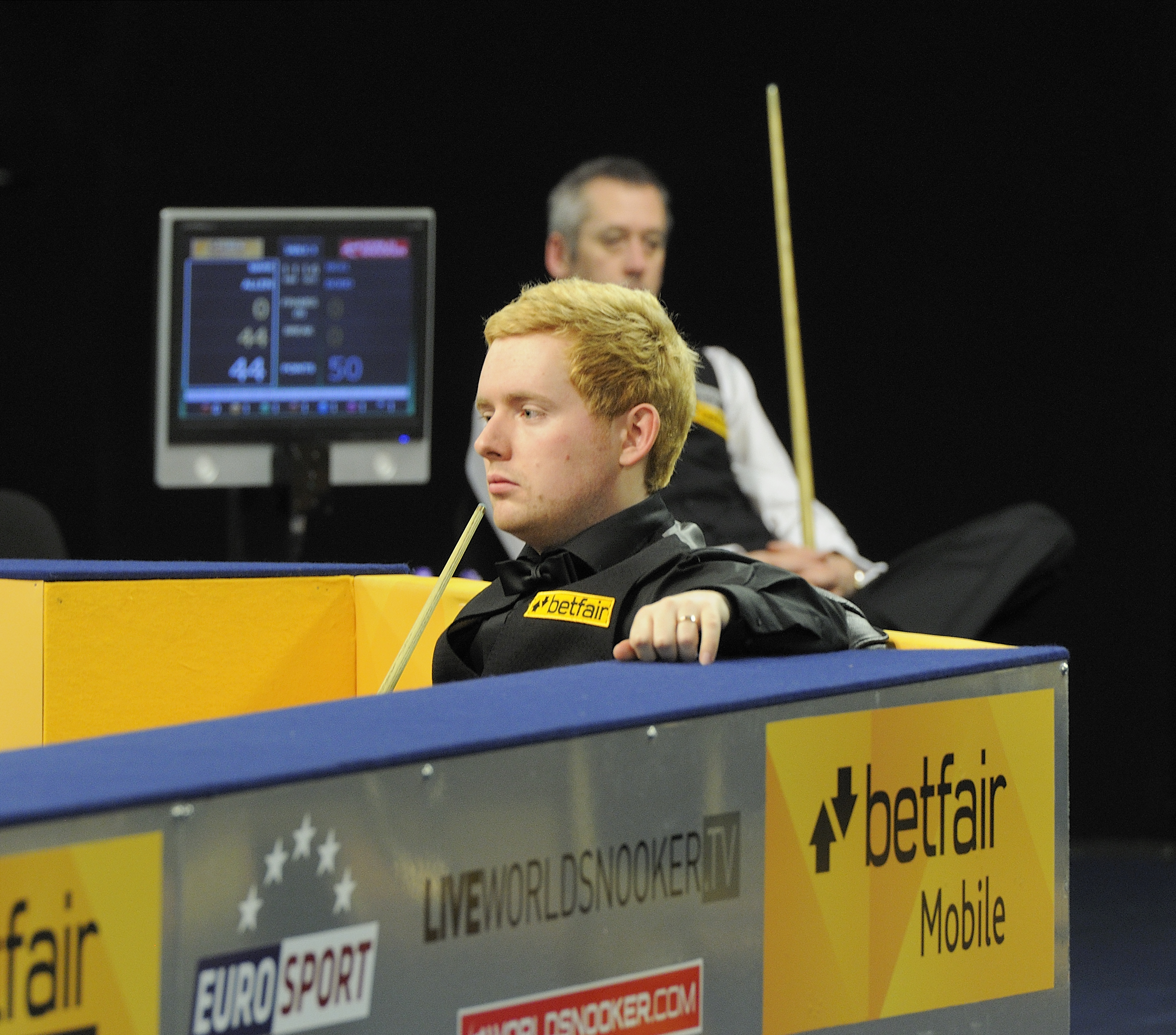 Picture taken in Berlin during the Snooker German Masters in 2013. Ben Woollaston.